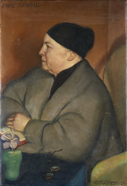 Anne Cathrine Marie Aschehoug (1860–1926), painted in 1924 by her son-in-law, the the italian philosopher and painter Giovanni Costetti (1874–1949).